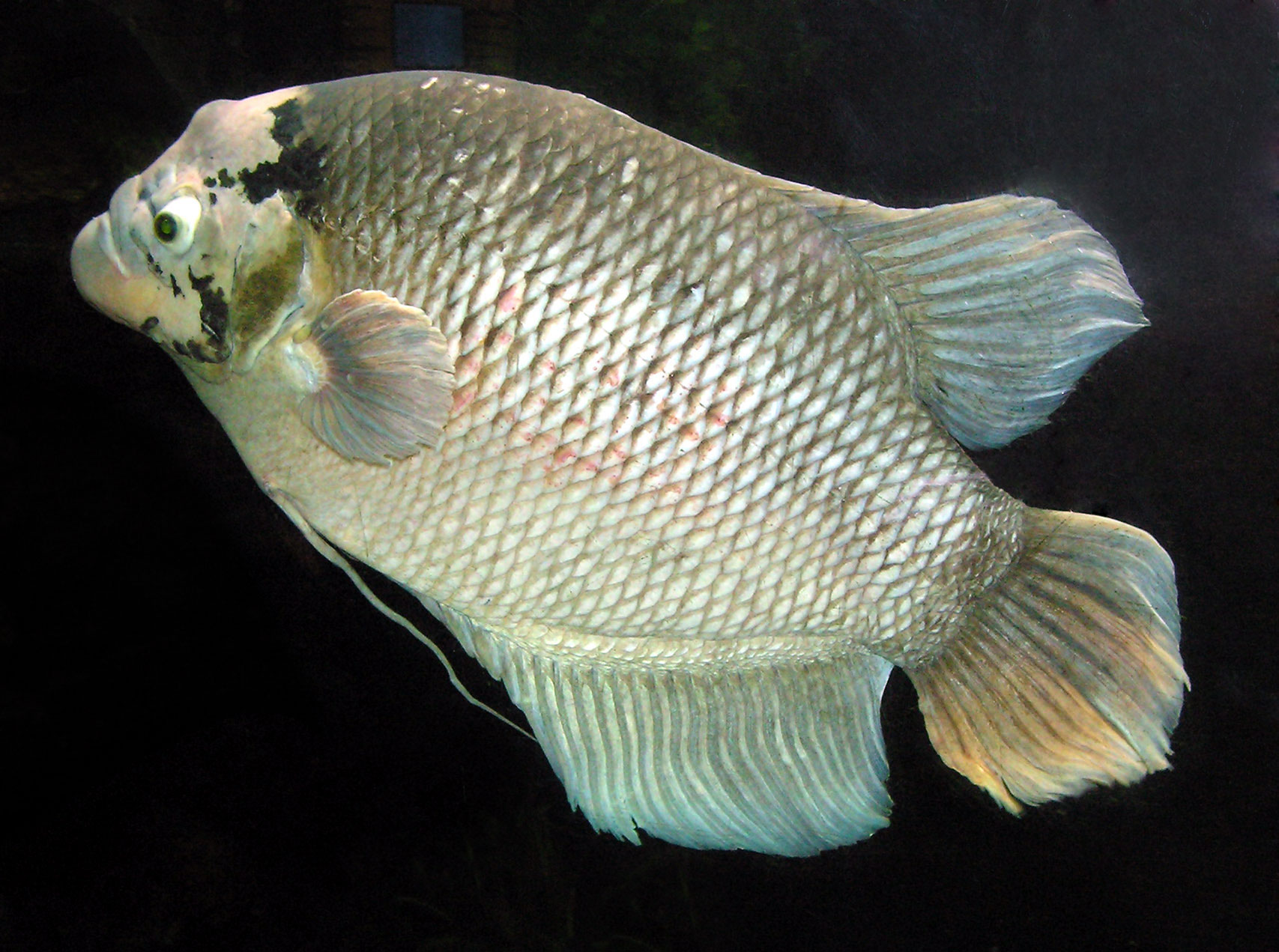 Giant gourami (Osphronemus goramy) at Bristol Zoo, Bristol, England.